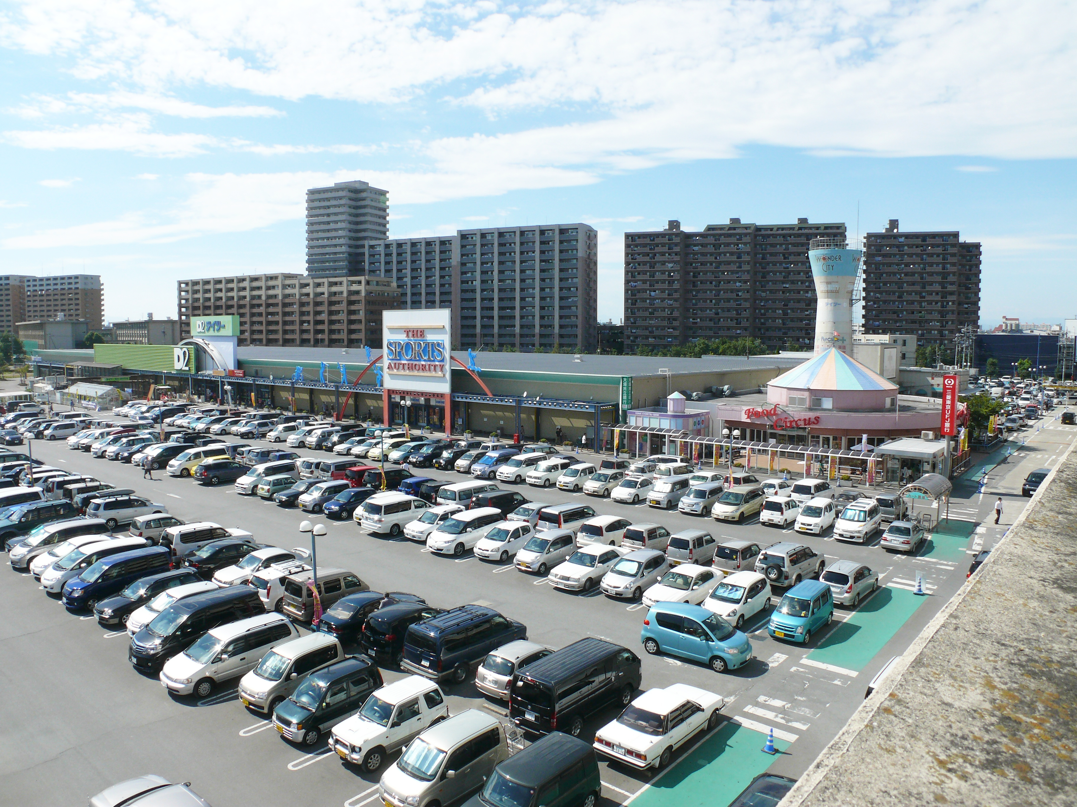 Diamond City of Wonder City Shopping Center.